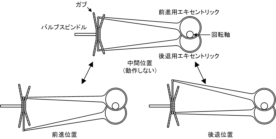 A figure used for explanation of gab motion (a kind of valvegear), with Japanese comment